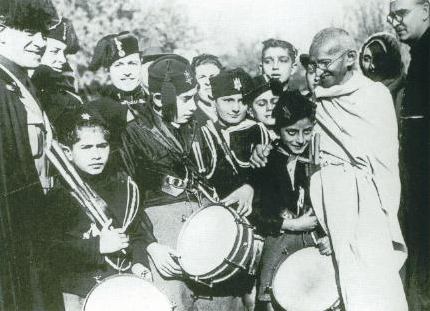 Gandhi in Rome, where he met with Mussolini on his way home from London's Conference, December 12, 1931.